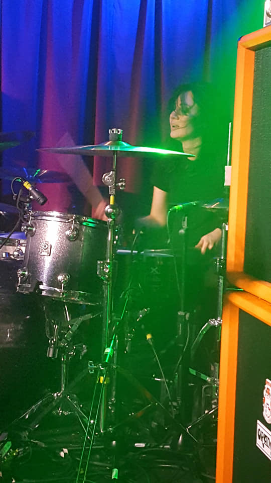 Hannah McKay of The Amorettes performing in Nottingham, 30 November 2018